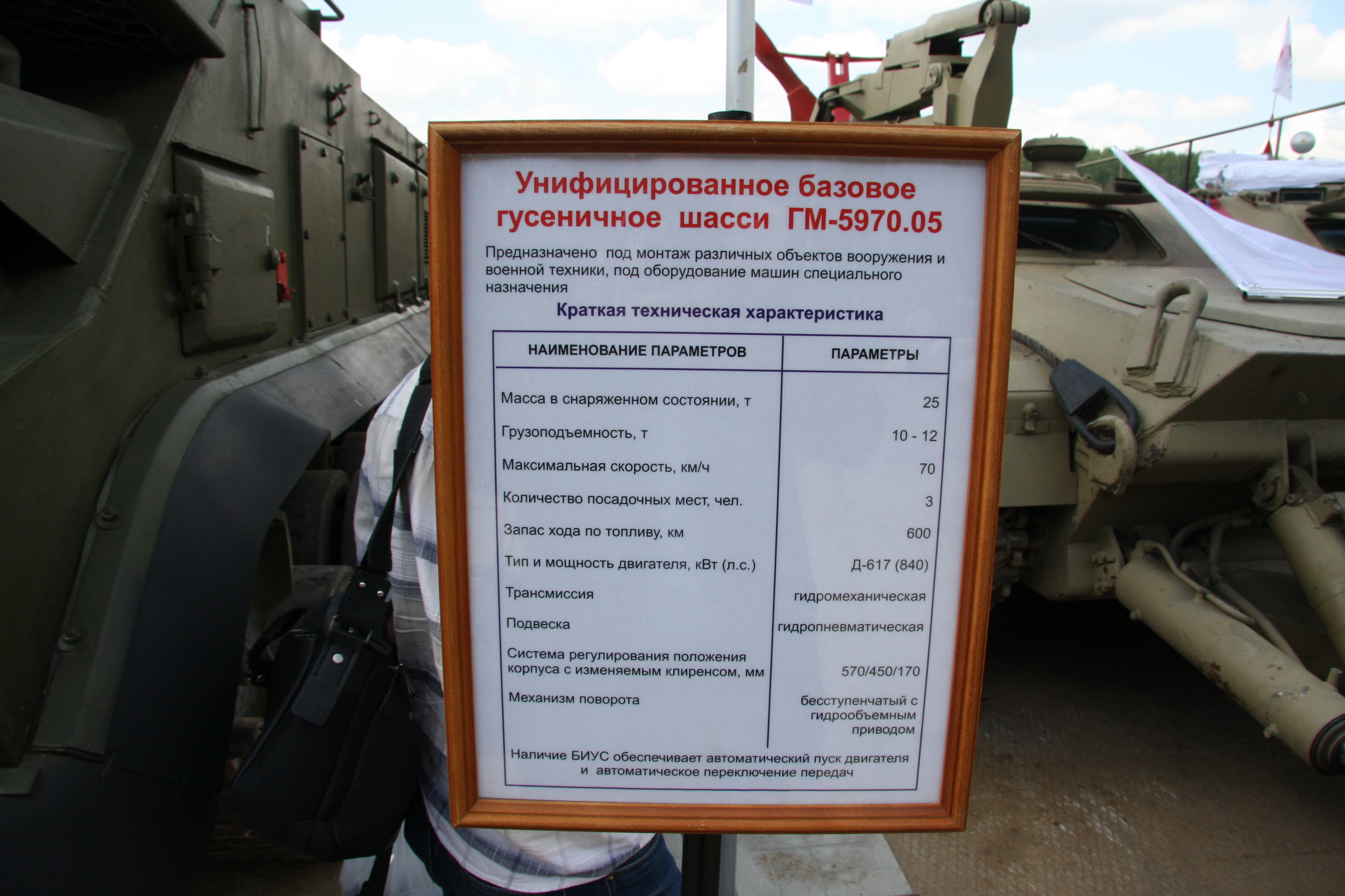 Tracked base chassis GM-5970.05